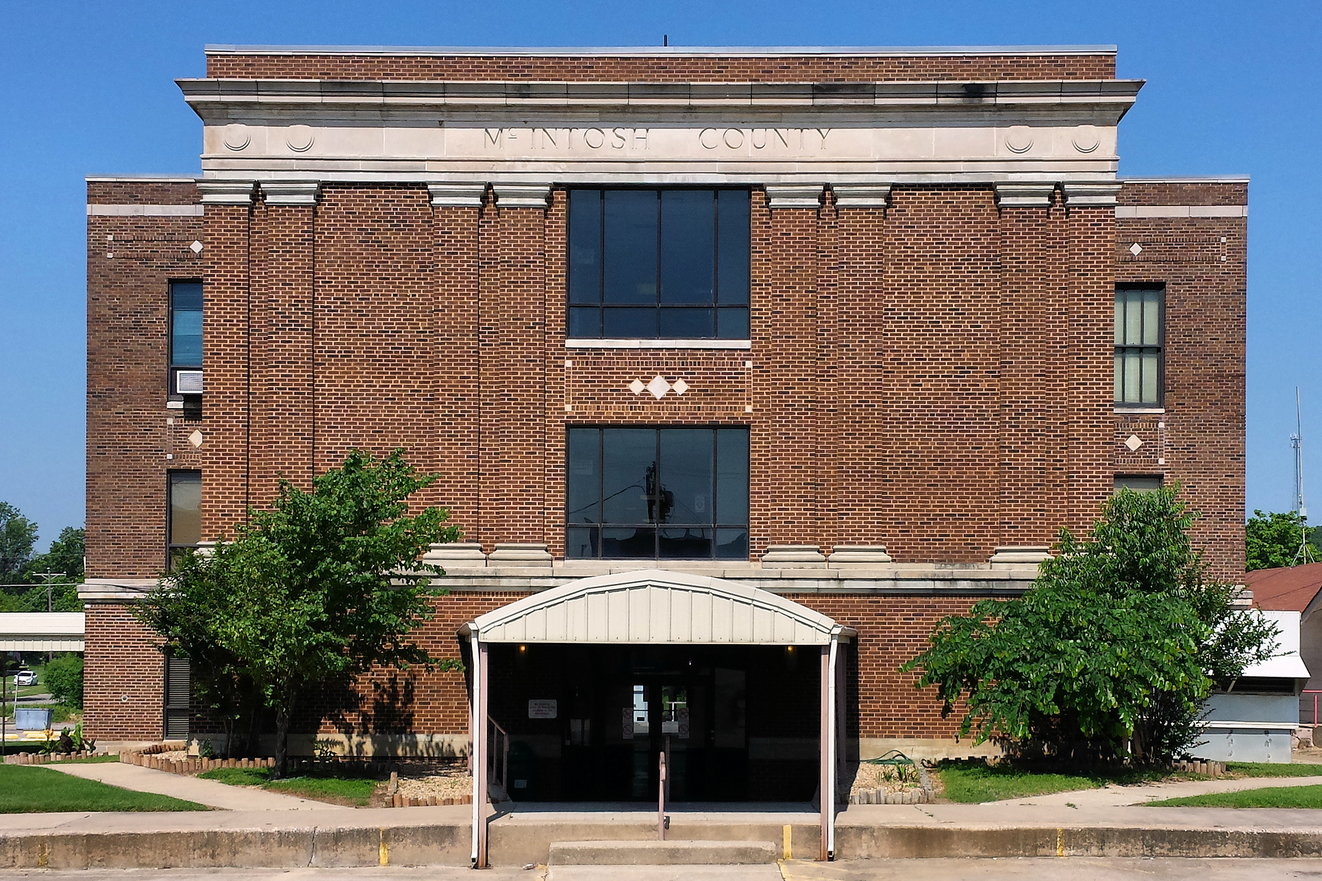 The McIntosh County Courthouse in Eufaula, Oklahoma, United States.The brick-faced building was built in 1926 and listed on the National Register of Historic Places on March 22, 1985.